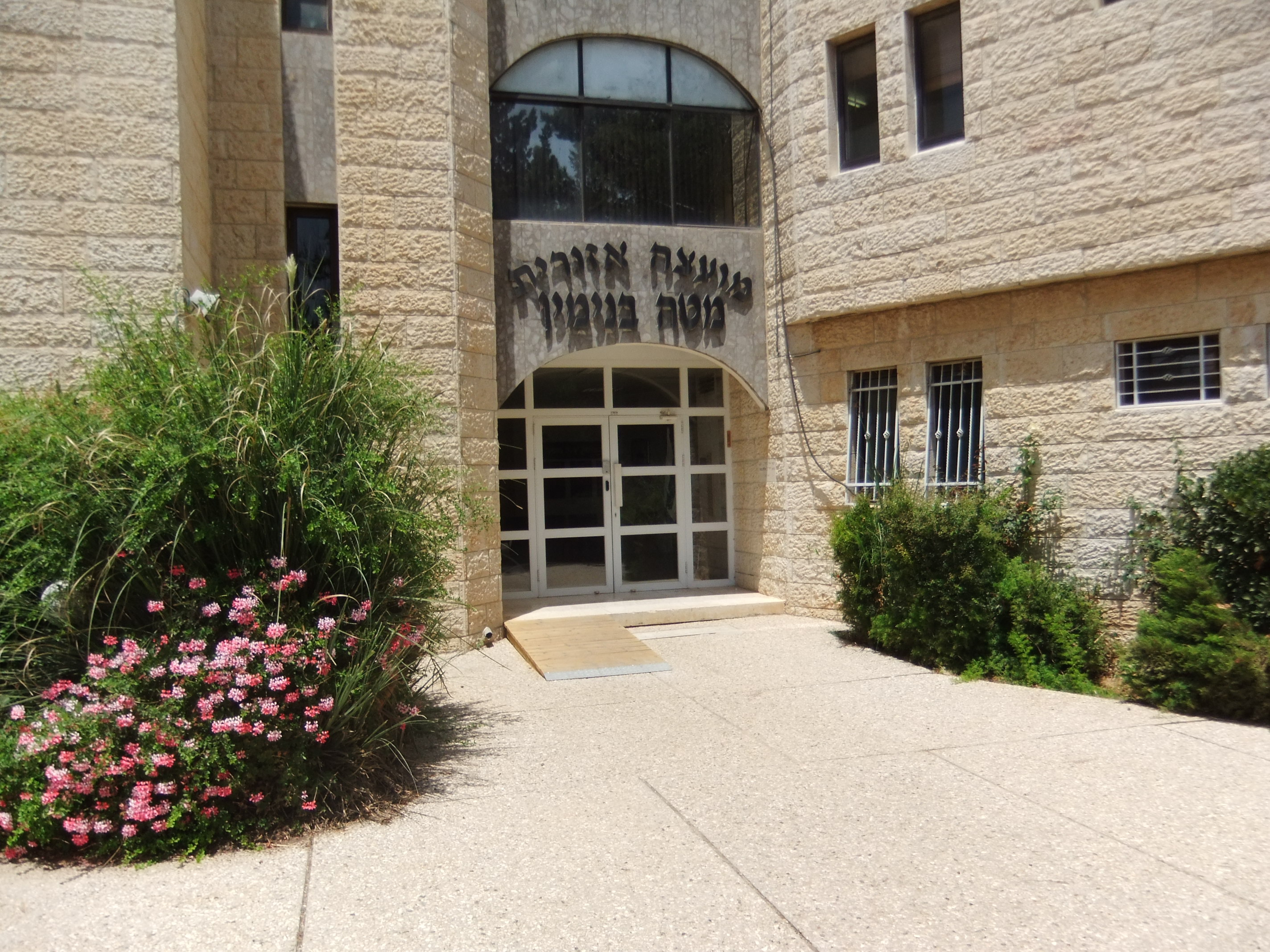 Mateh Binyamin Regional Council main building